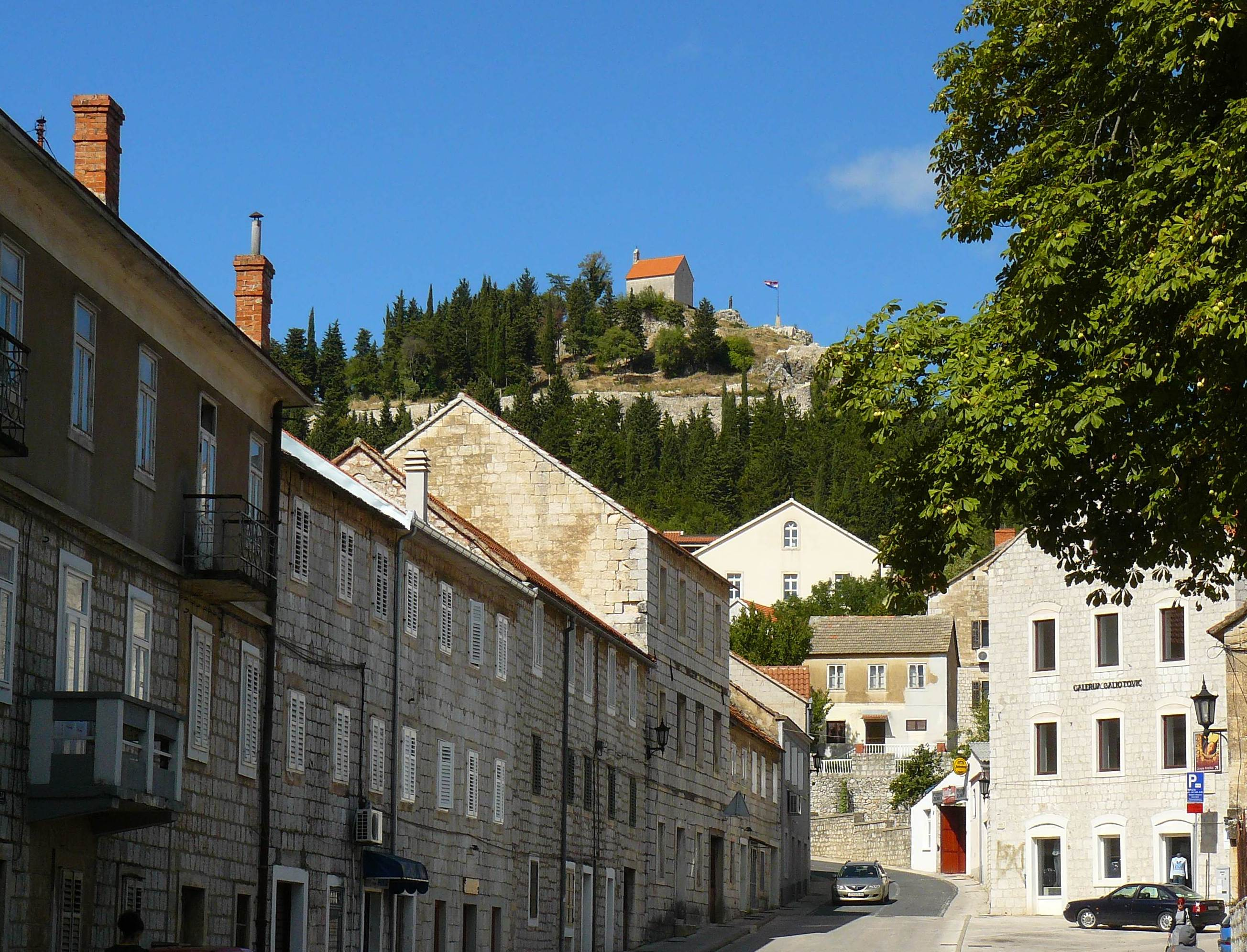 Sinj in Croatia